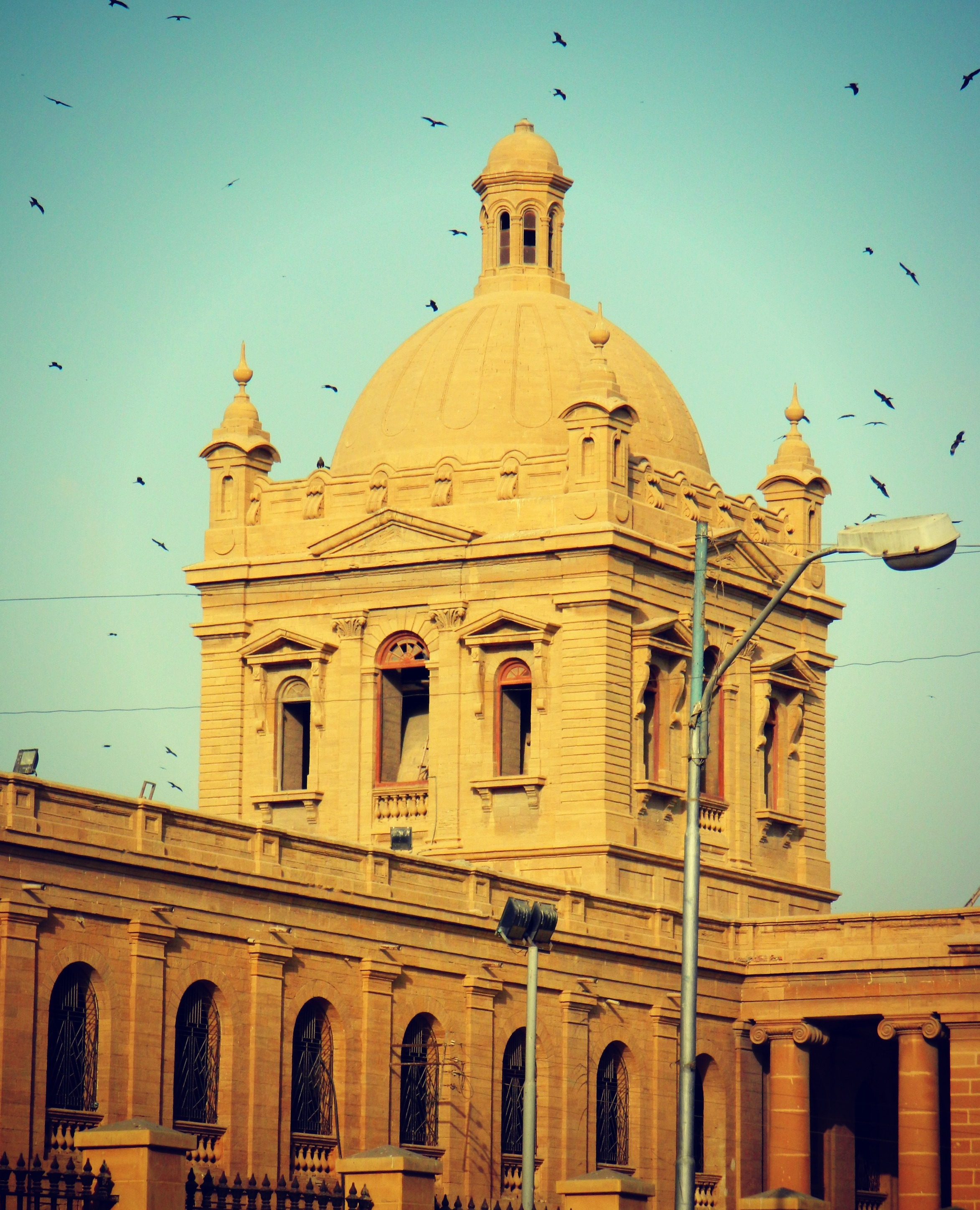 D.J. Science College: Geology & Math Departments (originally the principal's bungalow) This is a photo of a monument in Pakistan identified as the SD-P-79